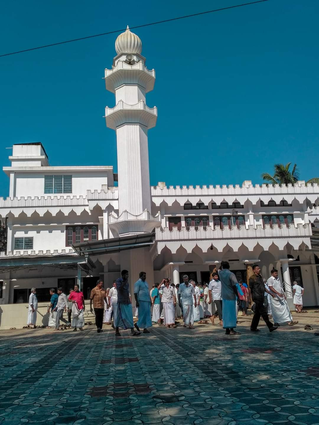 ചൊവ്വര ചുള്ളിക്കാട്ട് ജുമാ മസ്ജിദ് ശ്രീമൂലനഗരം